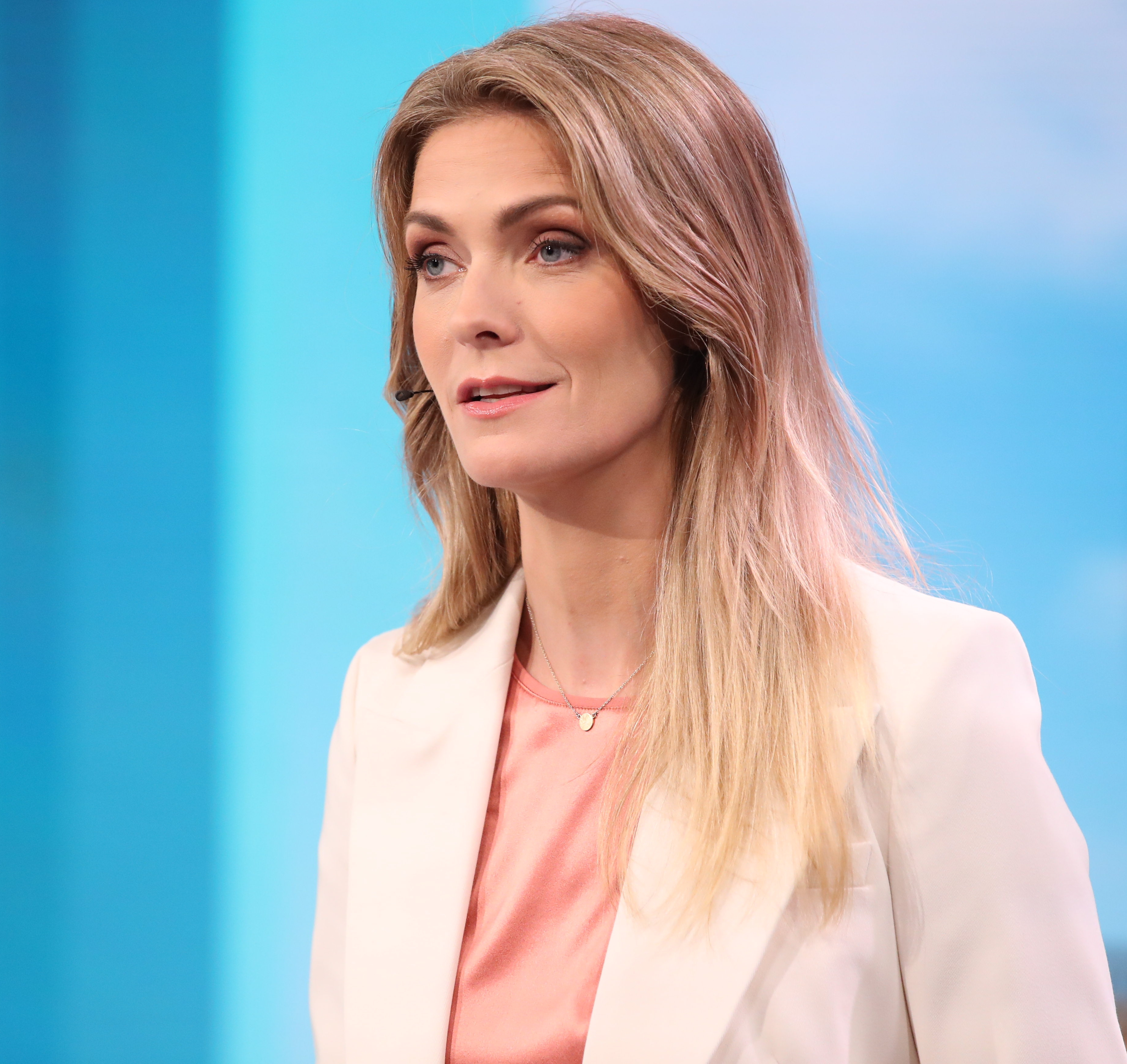 Election night Saxony 2019: Wiebke Binder (MDR)